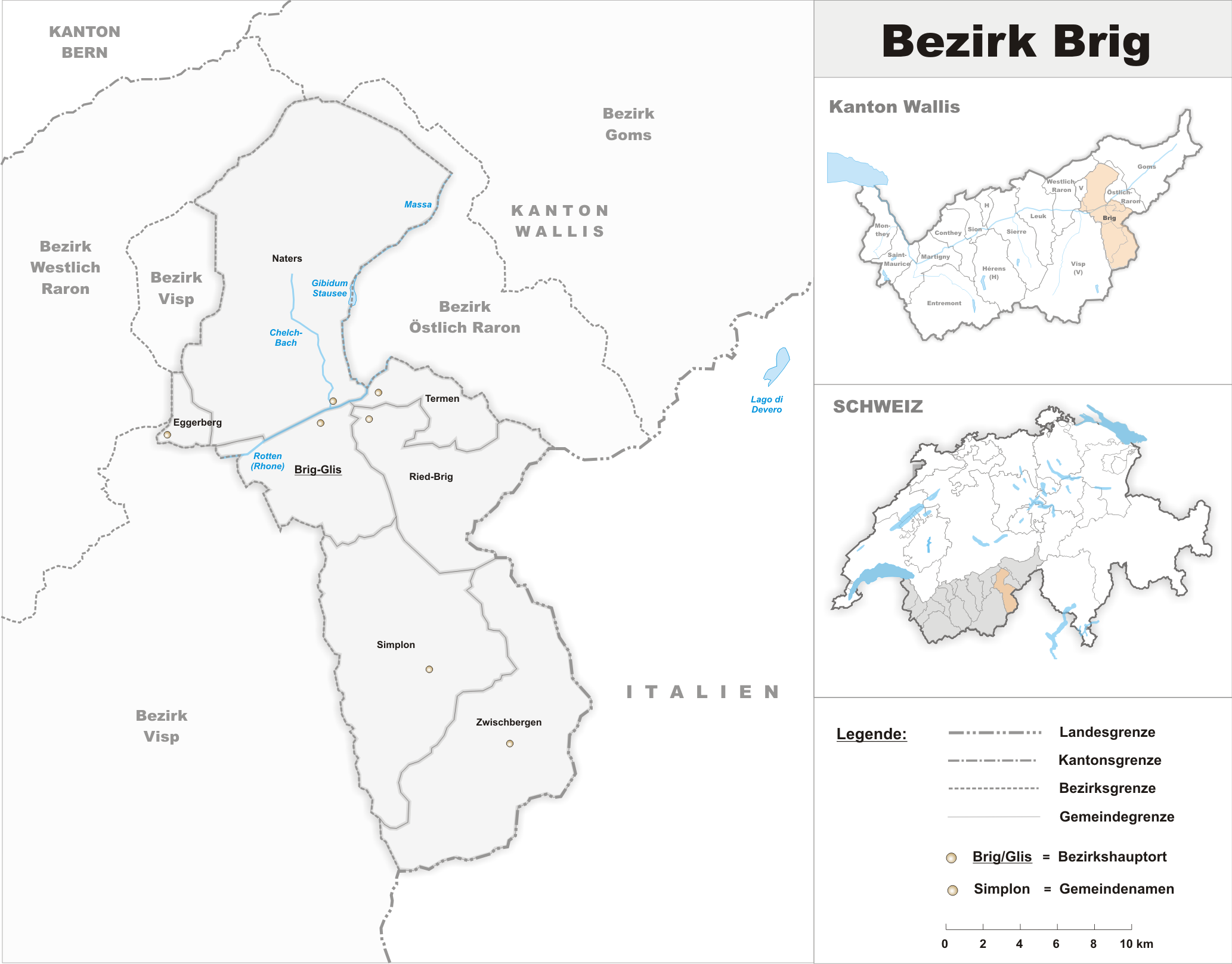 Municipalities in the district of Brig